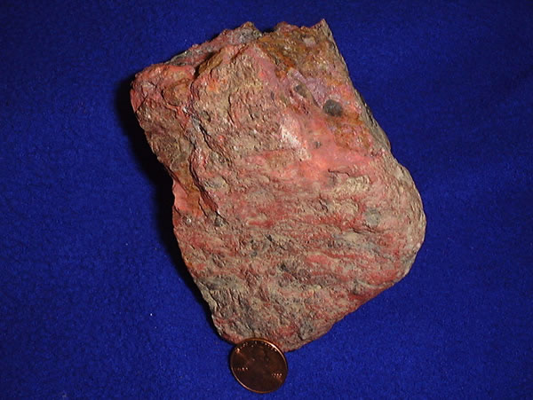 Ore of Mercury.